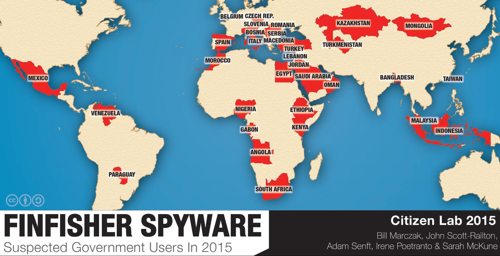 Suspected FinFisher government users that were active at some point in 2015. we identify 33 likely government users of FinFisher in 32 countries, based on the presence of a FinFisher master at an IP address in a country18 or belonging to a specific government department.